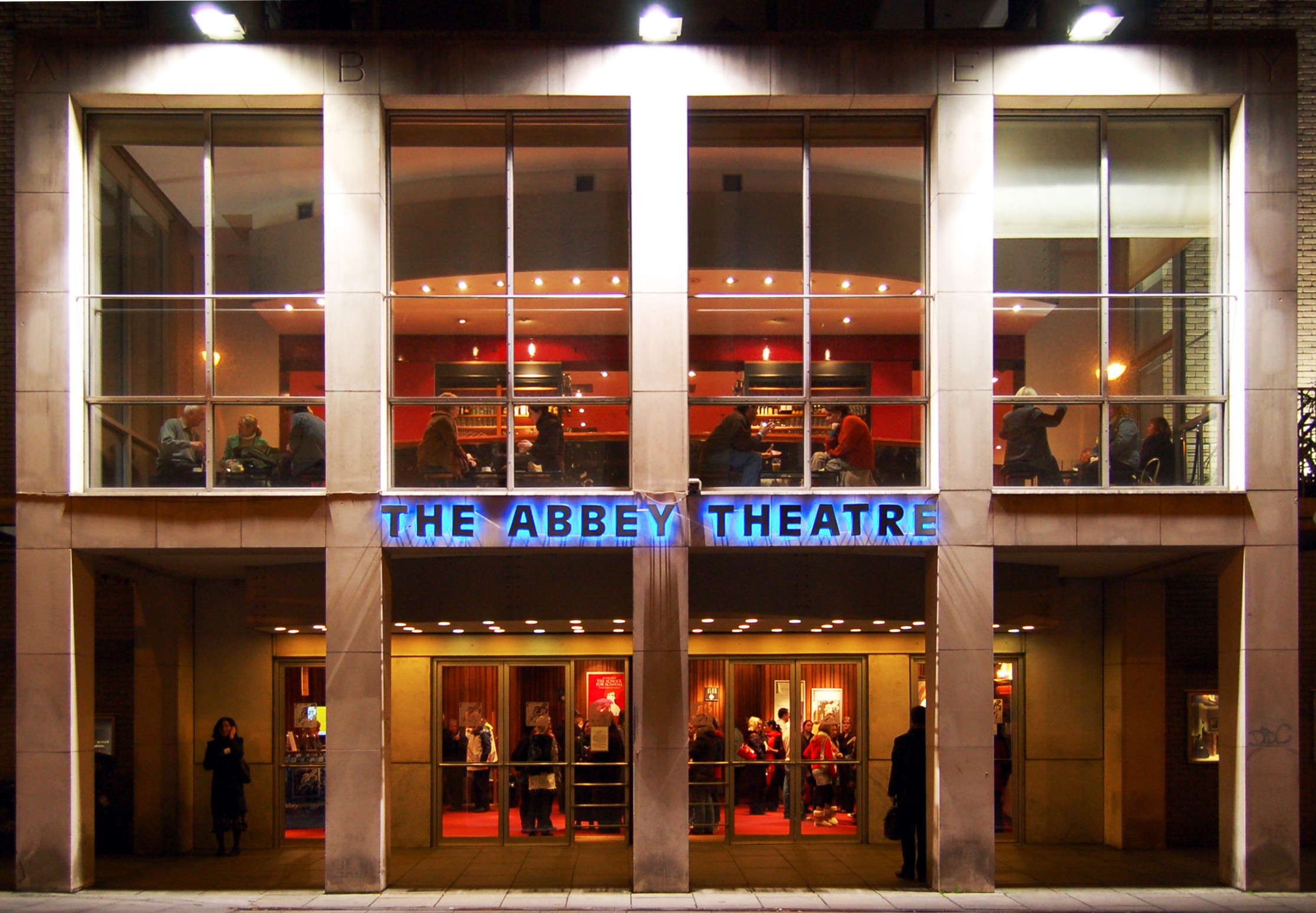 Exterior of Abbey Theatre